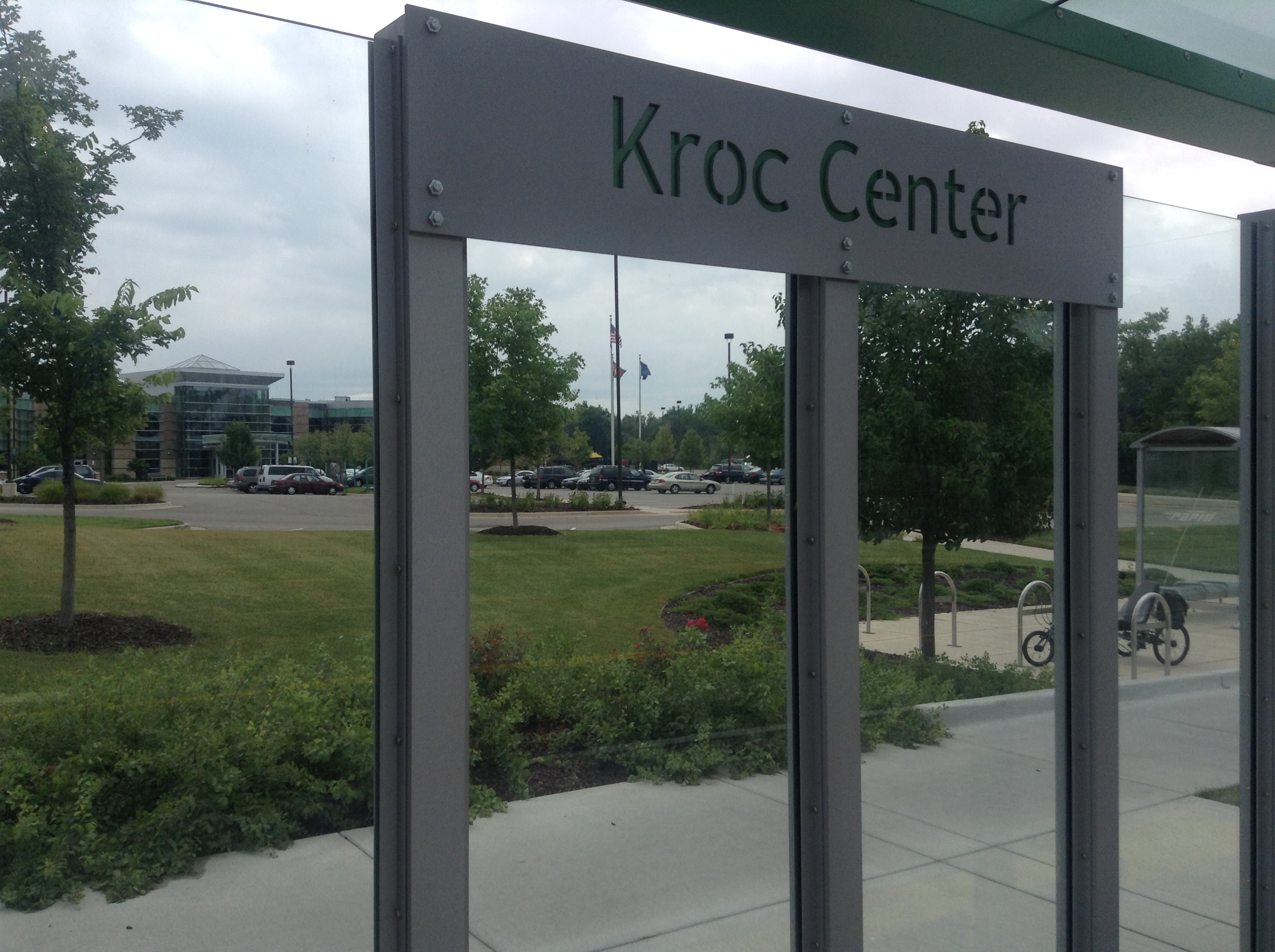 The Kroc Center visible in the background.